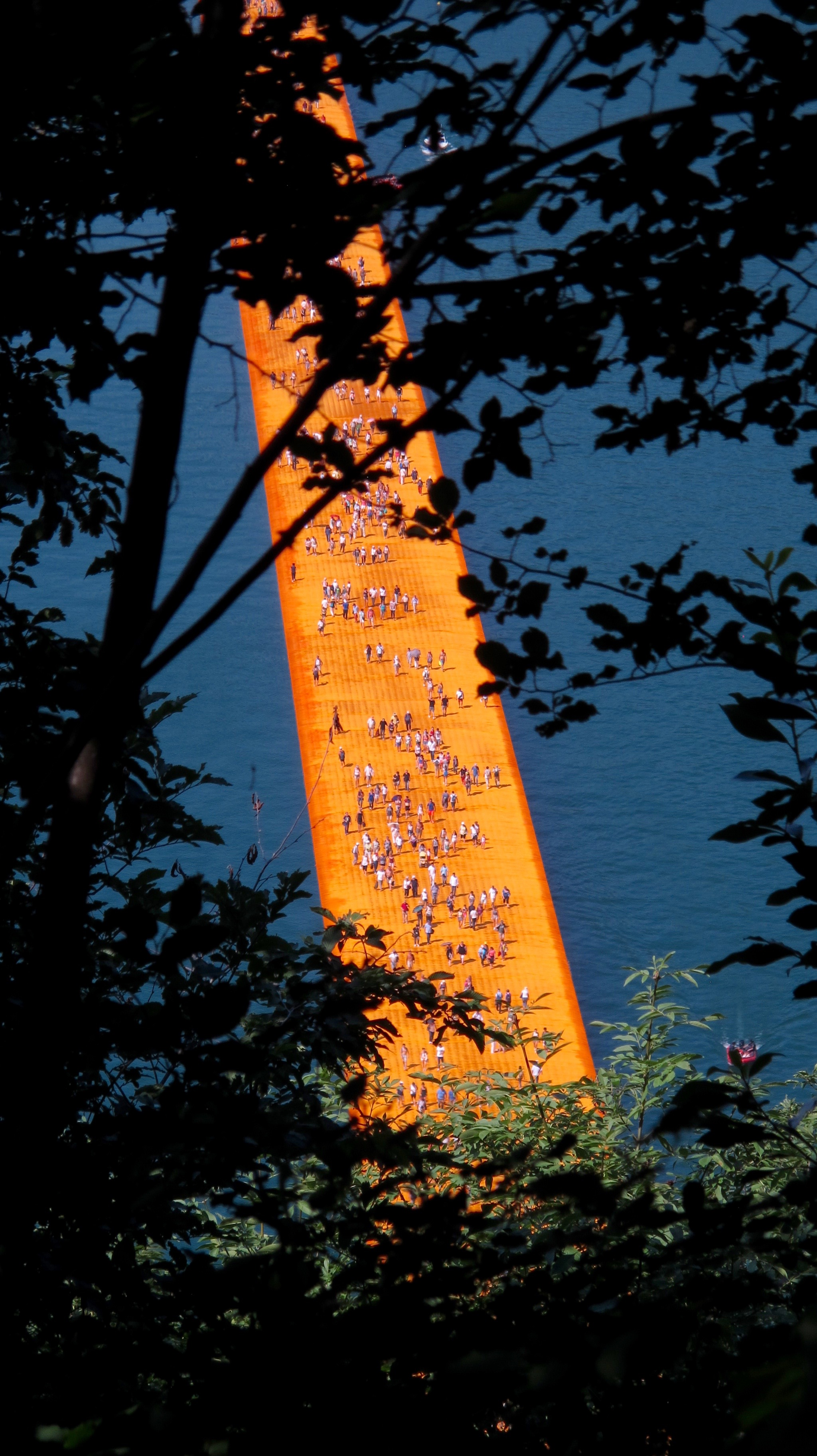 The Floating Piers by Christo